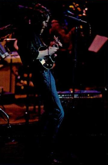 Trade ad for The Band's album Rock Of Ages. To better adapt it to his respective Wikipedia article, the ad was cropped and cleaned in a graphics editing program. The original can be viewed at the source below.